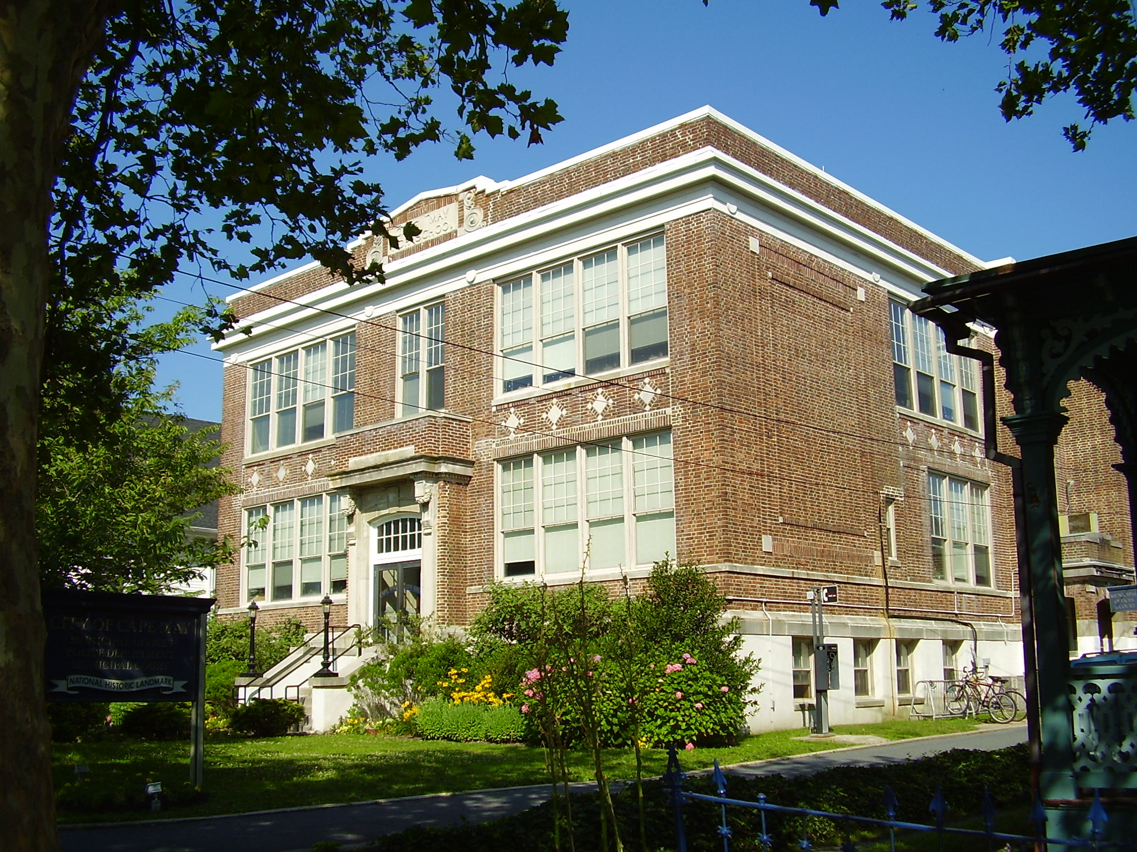 Cape May City Hall and Police Station, formerly Cape May High School